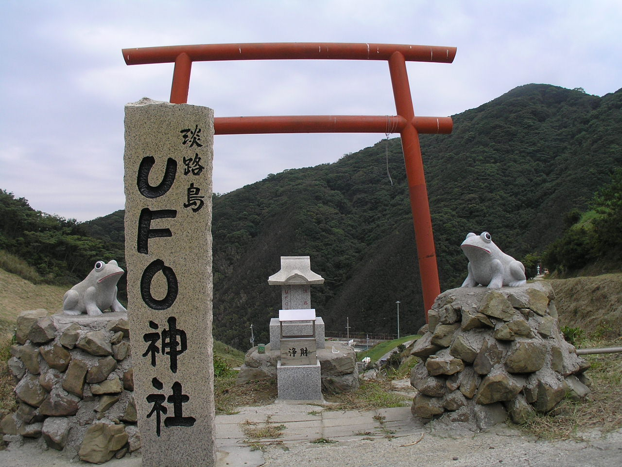 Tachikawa Narcissus Township Paradise